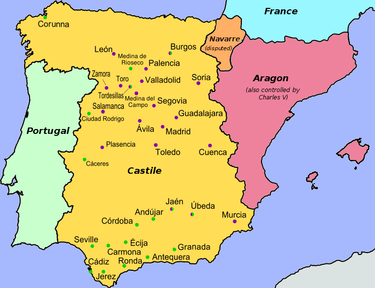 A map of city control during the Revolt of the Comuneros. Rebel cities are colored purple, royalist cities are colored green. In cities colored half and half, both sides were present.